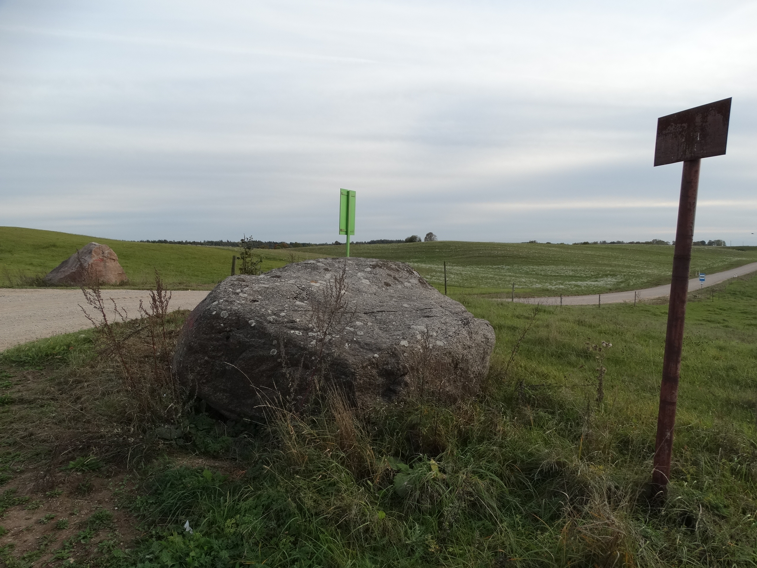 Stone in Medinai, Kaišiadorys District, Lithuania